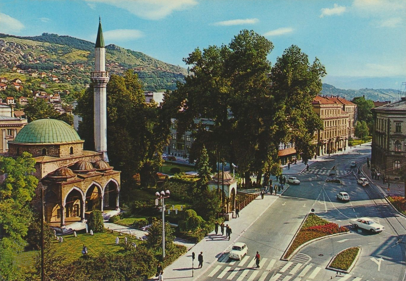 Ali Pasha's Mosque in Sarajevo